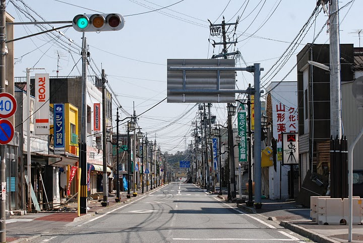 The center of Namie is a ghost town, Namie, Fukushima Pref., Japan 12 April, 2011 (VOA - S. L. Herman)